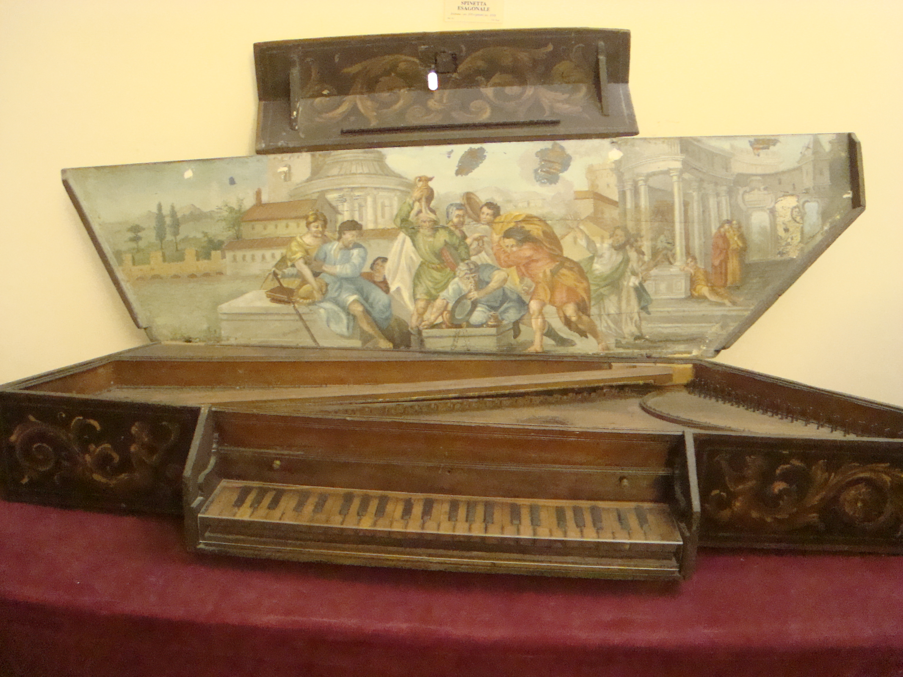 Hexagonal spinet from the 18th century (paintings from the 16th century), collections Museo Nazionale degli Strumenti Musicali di Roma